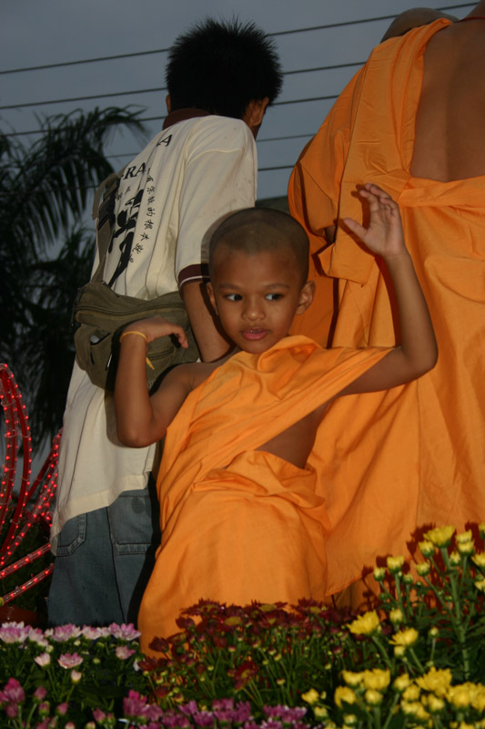 Young buddhist during a parade on Wesak Day, May 2006, Kuala Lumpur